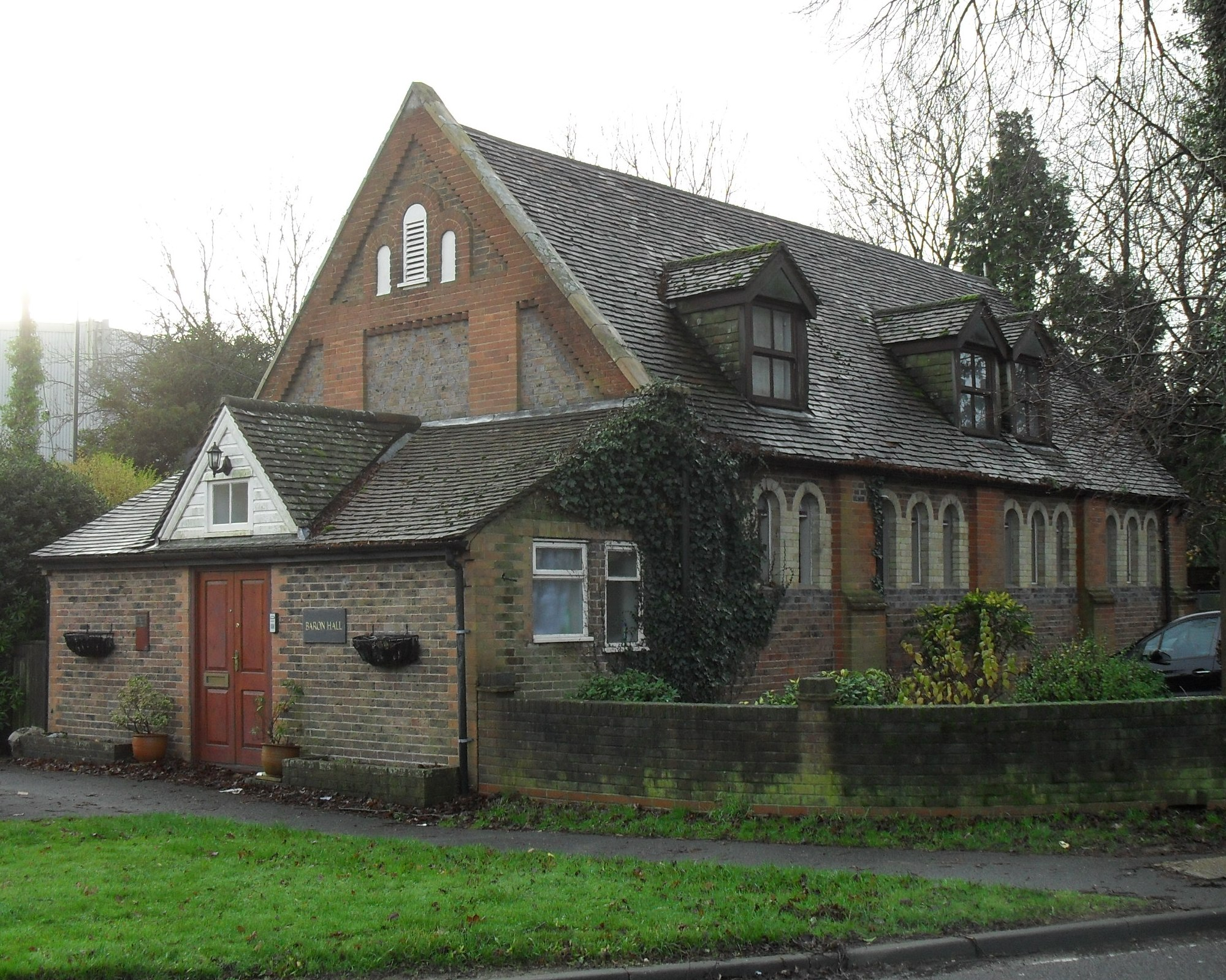 The former Church of the Ascension, Old Brighton Road South, Pease Pottage, West Sussex, England. Built as a chapel of ease to St Mary's parish church, Slaugham. The building is now an office.